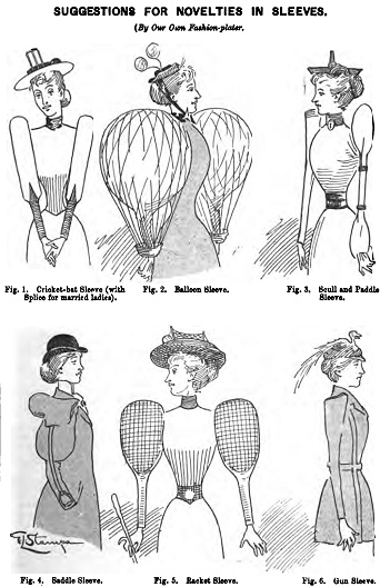 Cartoon lampooning Victorian era women's fashion from (1895-12-28). "Punch: Or the London Charivari". Error: journal= not stated CIX: 264. London: Bradbury, Agnew, & Co. LD., Printers..